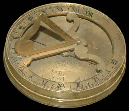 Portable Sundial made by Gabriel Stokes, Dublin, 1742.